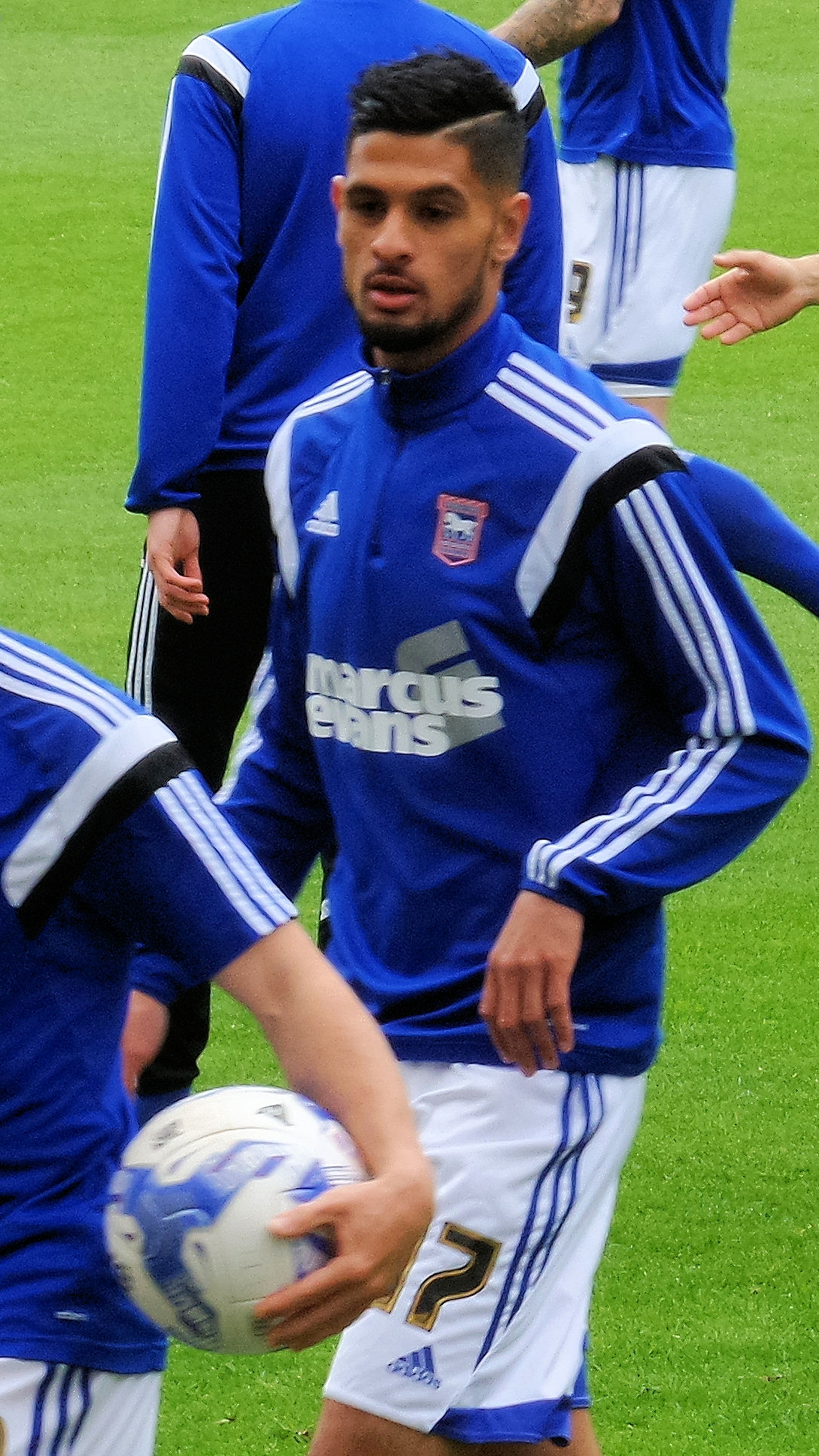 Kevin Bru playing for Ipswich Town at Norwich City on 16 May 2015.